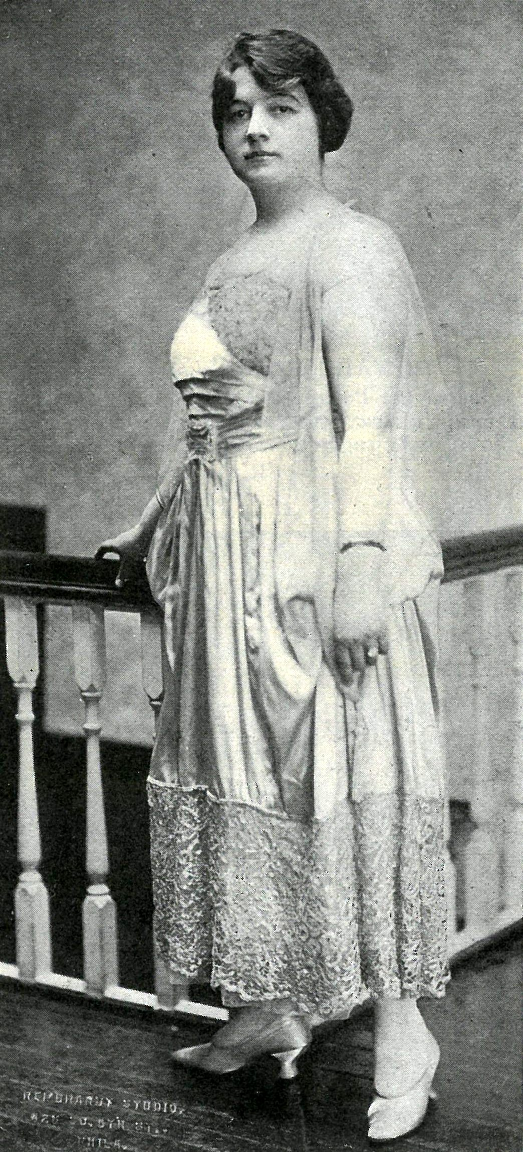 Kathryn Meisle in a photo by Rembrandt Studio